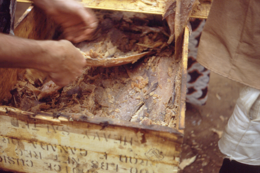 This 1968 photograph showed salted dried codfish that was distributed to refugees of the Nigerian-Biafran war in the late 1960s. Such fish helped to supplement the protein deficient diets of the camp inhabitants who were suffering from protein malnutrition, which would eventually lead to kwashiorkor. In 1967, the CDC was asked to assist the International Committee of the Red Cross (ICRC) in its disease control and death prevention efforts at numerous relief camps outside of the war zone. The CDC carried out rapid health and nutritional assessments, coordinated the overall health and nutritional response, and implemented surveillance systems to track rates of illness and death. A triage approach was taken when allotting food supplies to camp refugees, which was based on the initial determination of each refugee’s nutritional status. The most serious malnutrition cases were hospitalized in each camp to be rehabilitated.